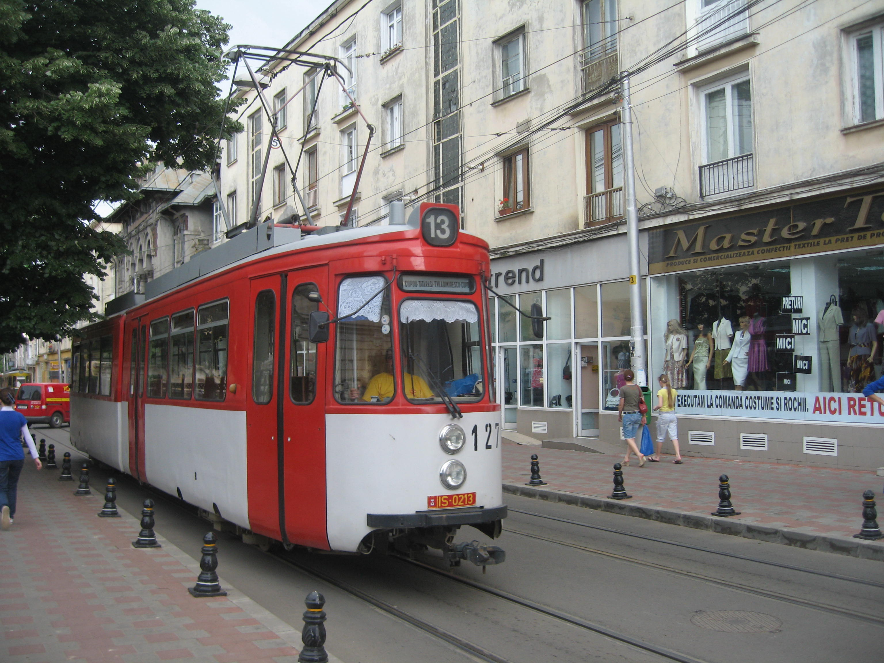 Tram No. 127 in Iasi is ex-Halle 862, a 1962 type-GT4 tram acquired secondhand by Iasi in 2003.